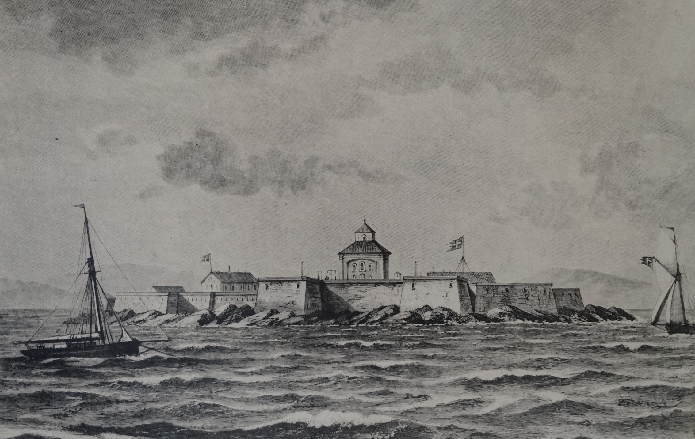 The Swedish fortress Nya Älvsborg in Gothenburg harbour. Drawing by Danish painter of marine scenes, Carl Baagøe. Featured in Illustreret Tidende August 4, 1878.